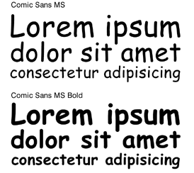 Example of the Comic Sans font.